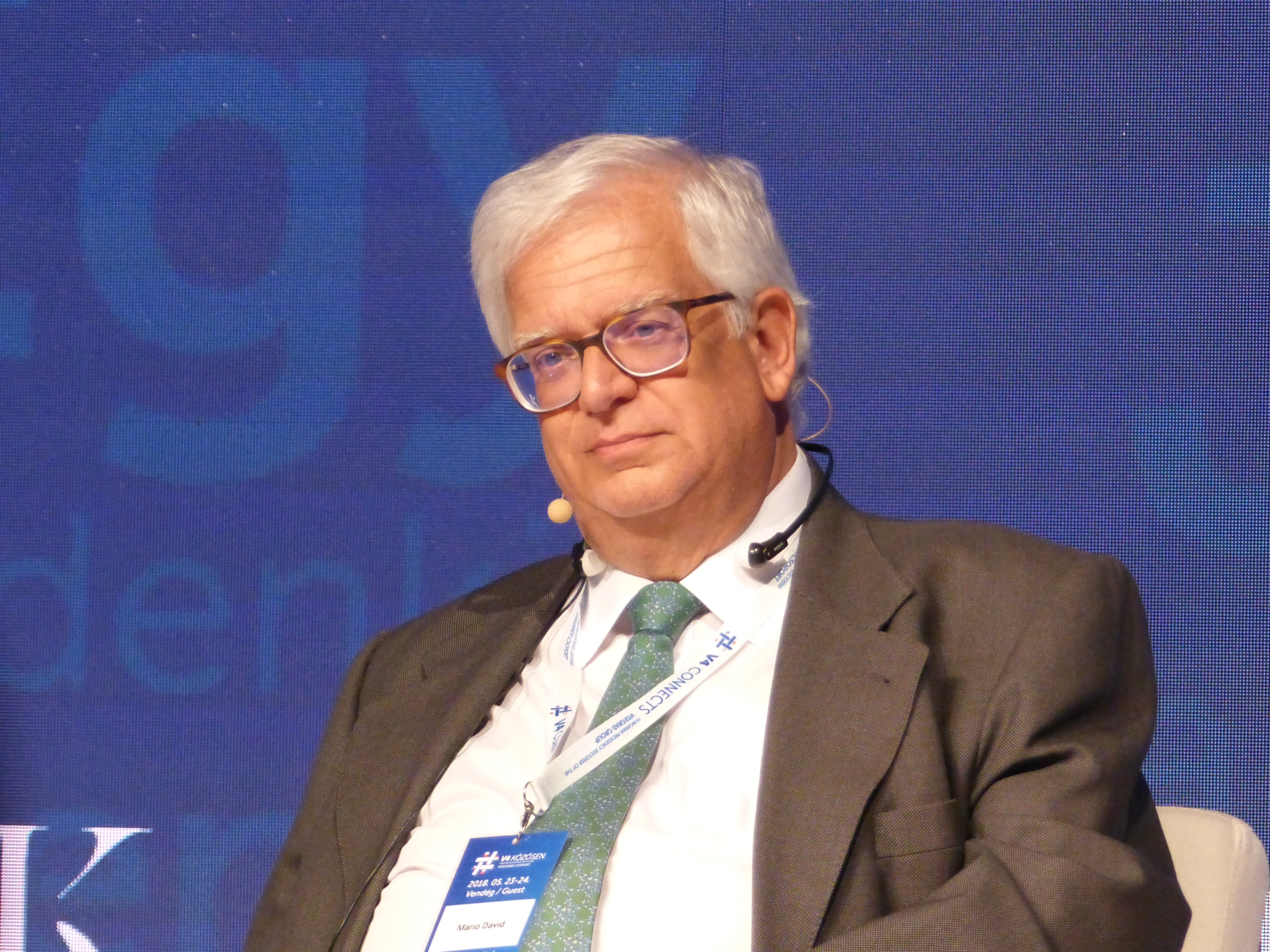 The Future of Europe international conference. Second day, the 24th of May, 2018. Polgári Magyarországért Alapítvány, XXI. Század Intézet, V4 Connects. Várkert Bazár, Budapest, Hungary, Central Europe. III. Panelː GEOPOLITICAL CHALLENGESː III. PANEL - Alexandr Vondra, Mário David, Tomáš Strážay, Schmidt Mária.